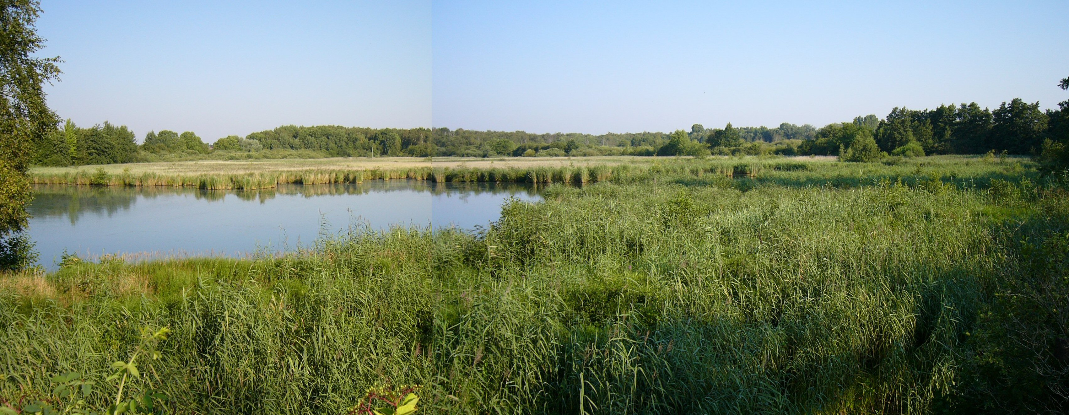 View over the natural reserve area from the observation tower at the research station of the NABU